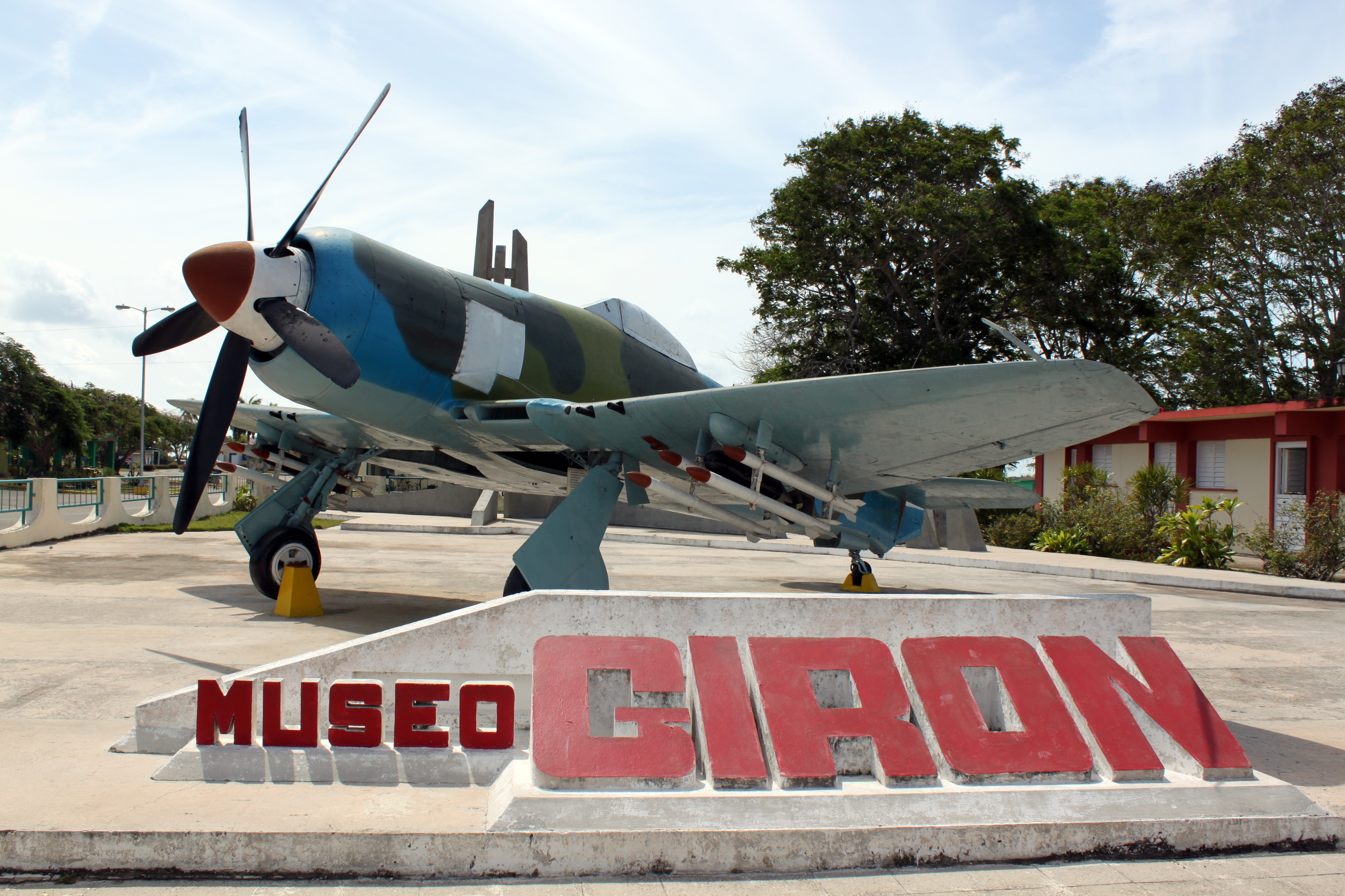 Museo Girón (museum about the invasion in the Bay of Pigs)